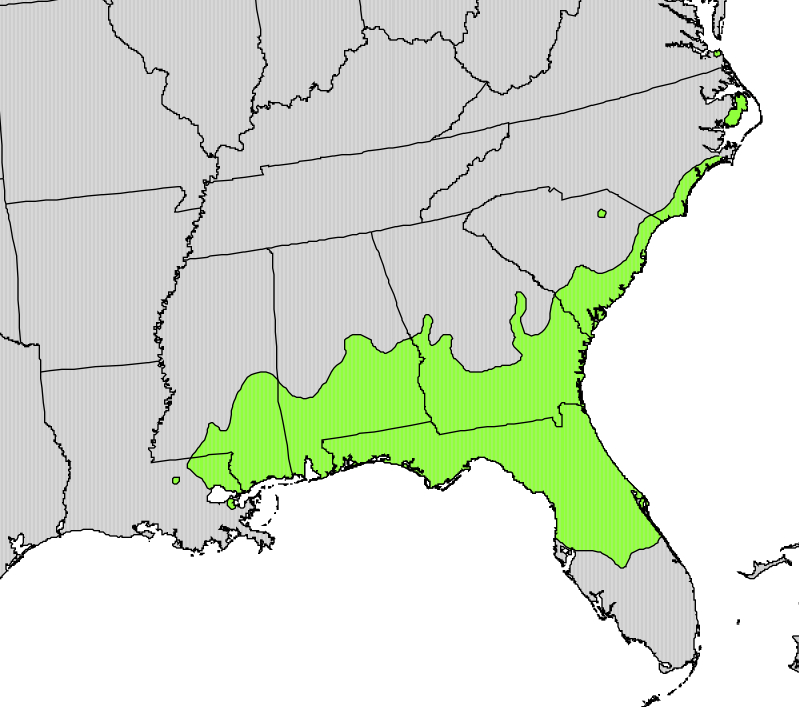 Range distribution map of Osmanthus americanus.